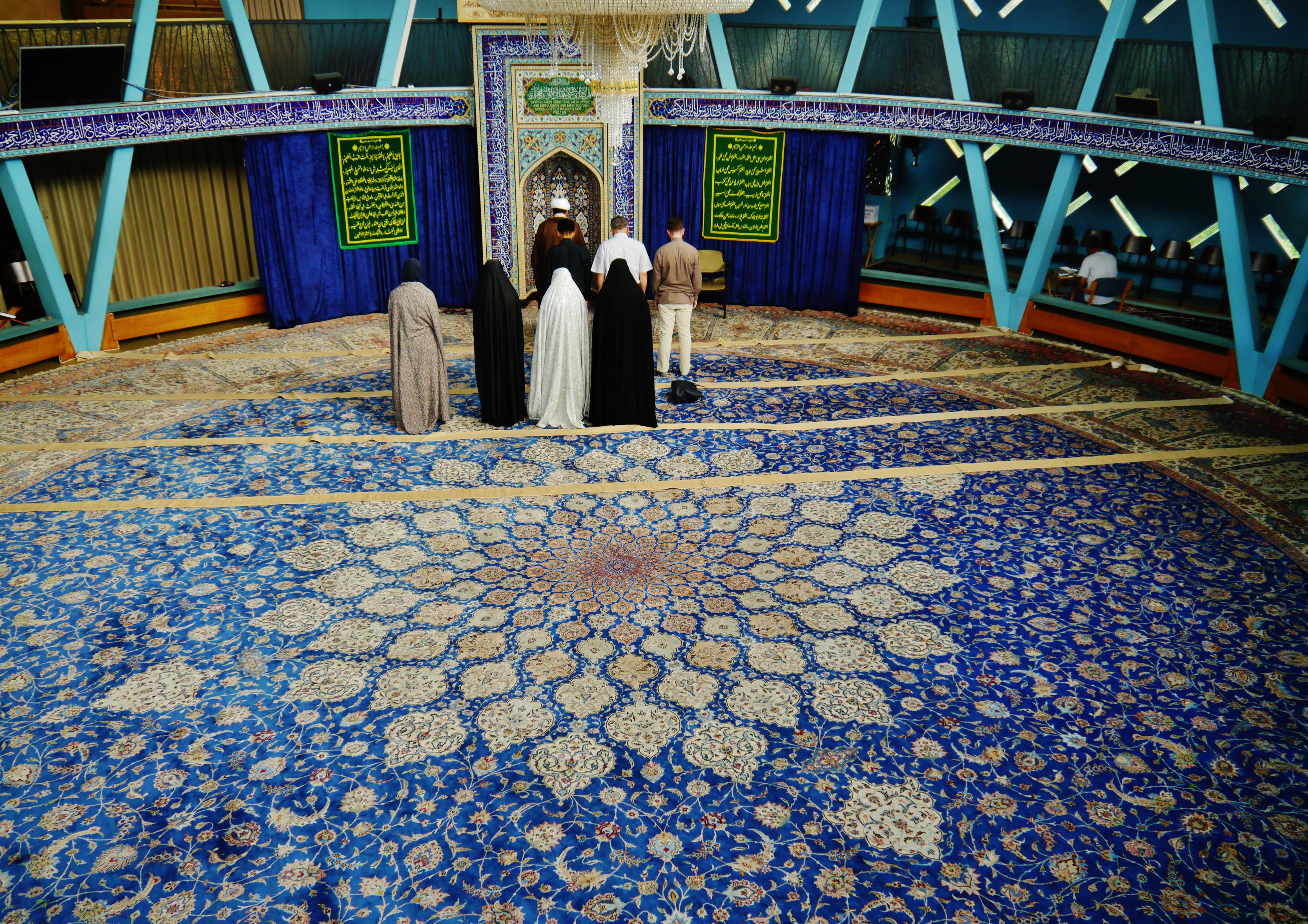 Prayer Hall of the Imam Ali Mosque, Hamburg, Federal State of Hamburg, Germany